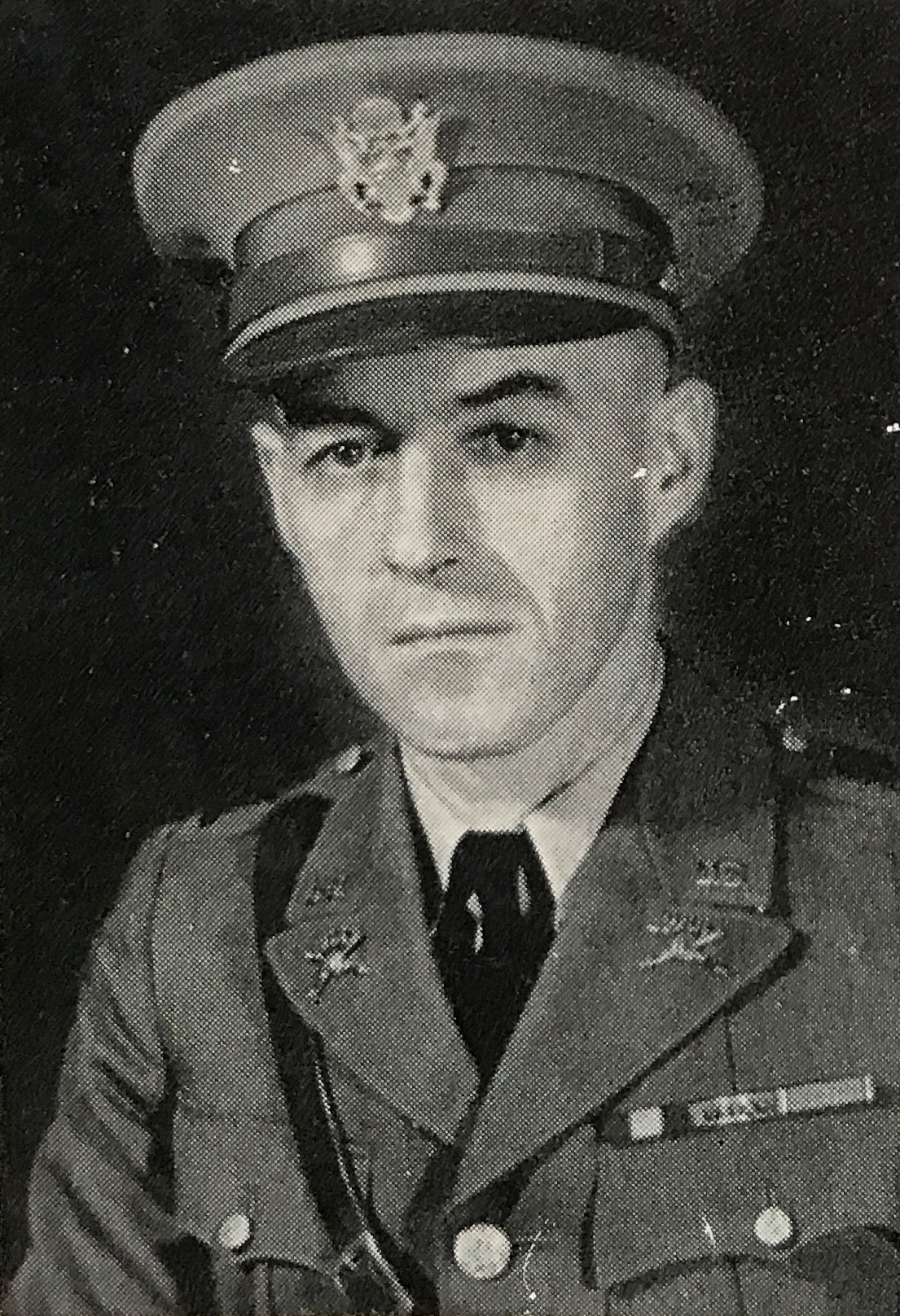 Picture of 1LT Dailey as a 1LT in Bty D, 265th Coast Artillery fo Pensacola. Unit redesignated as Battery C later. Dailey took command of Battery C, 265th Coast Artillery on 9/9/1940.